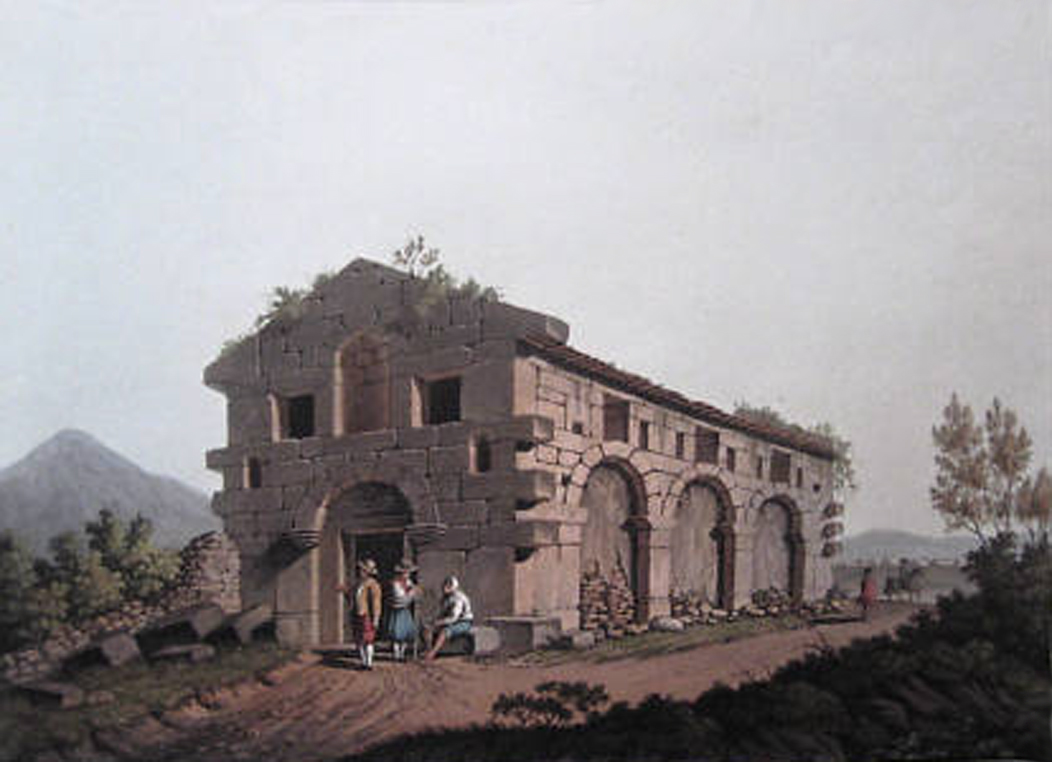 "Ancient bath near the fountain of the Paliki" (Painting from 1810, propably destroyed in an earthquake later)